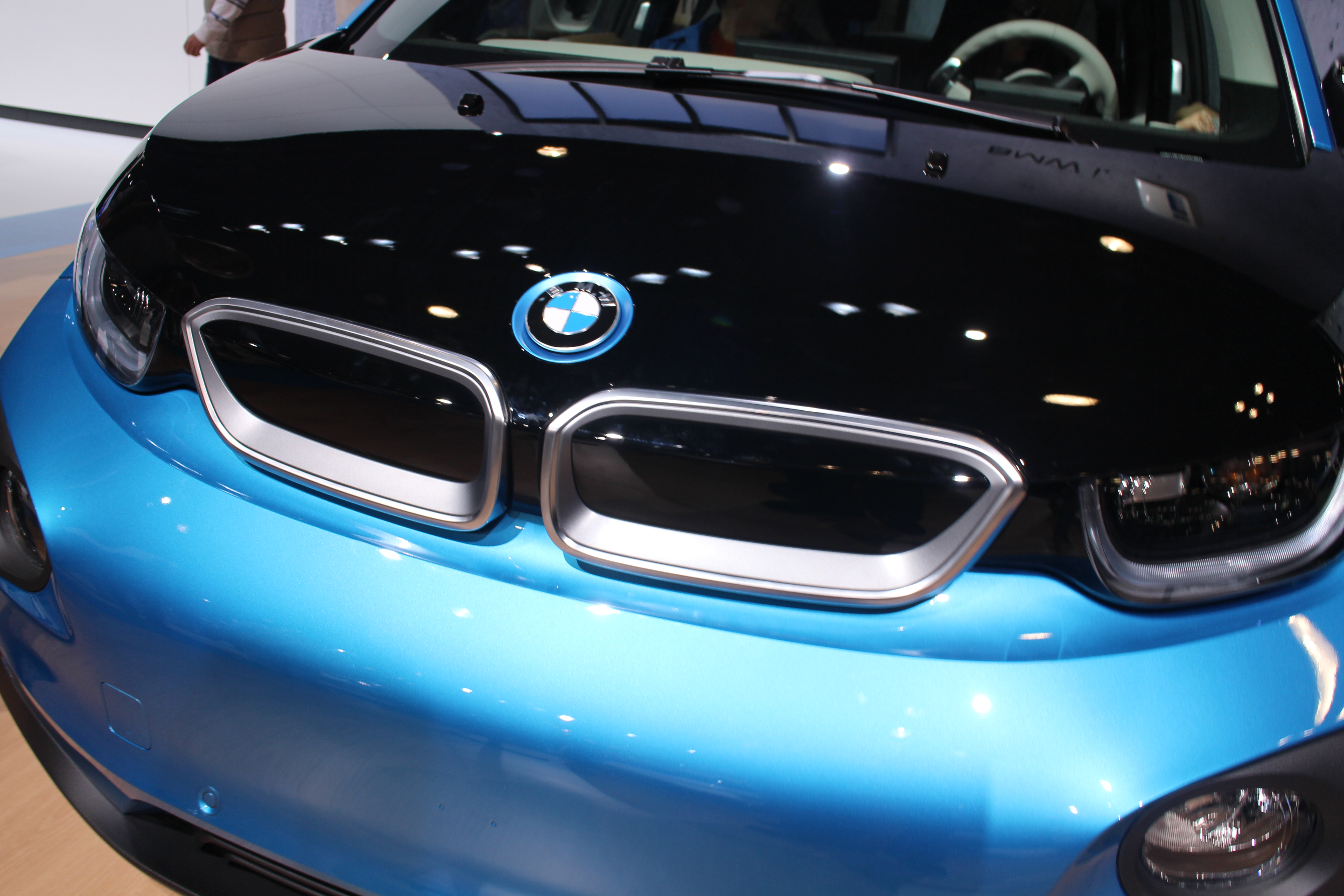 BMW I8 Front